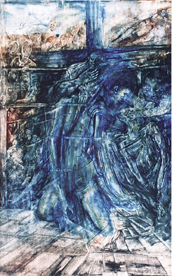 1 Painting Resurrección de Lázaro (Resurrection of Lazarus) by Mauricio García Vega